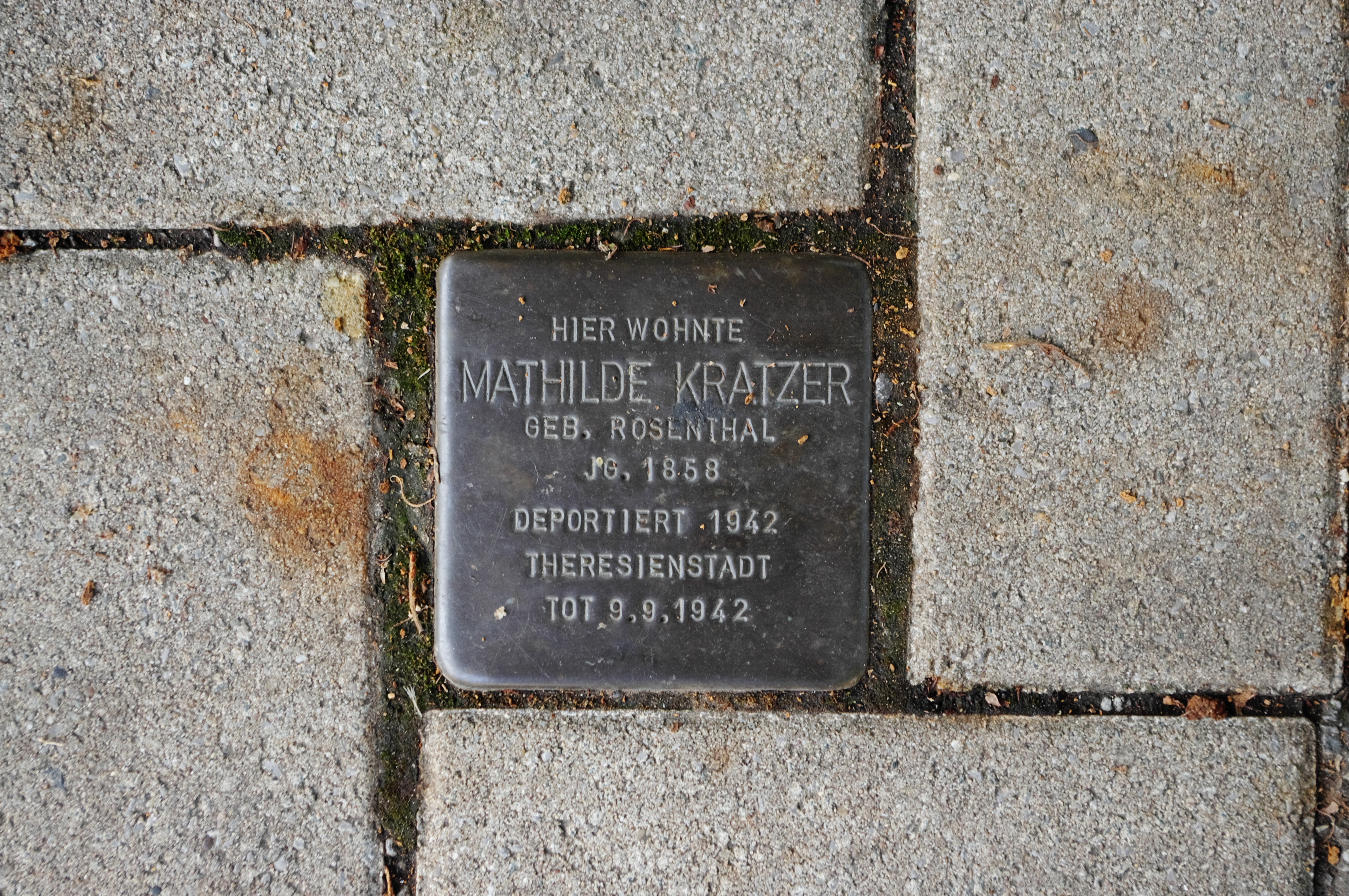 Stolperstein for Mathilde Kratzer in Dortmund, Germany